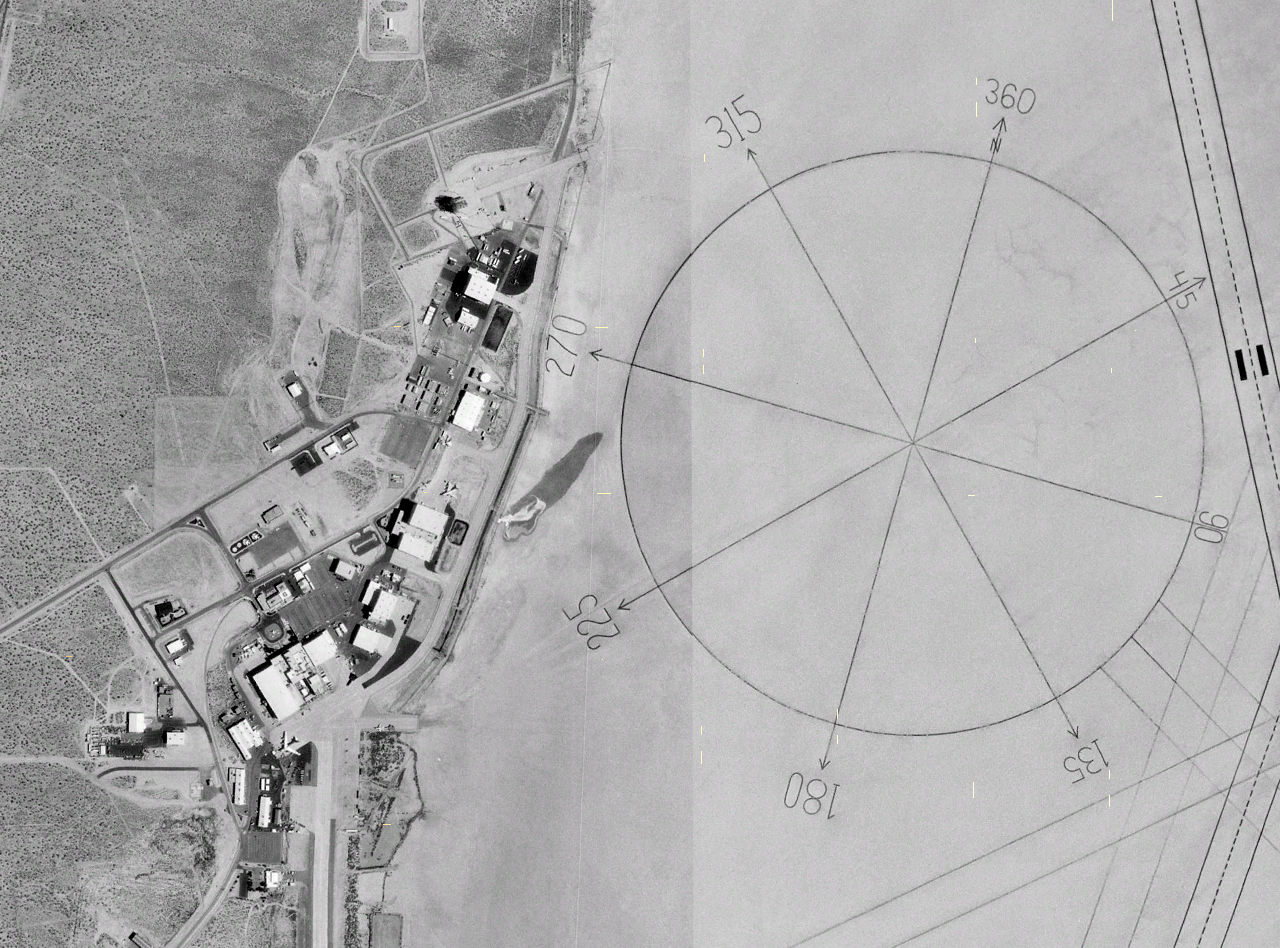 NASA 1m satellite photo (composite) of Dryden Research Center on Edwards Air Force Base, California.